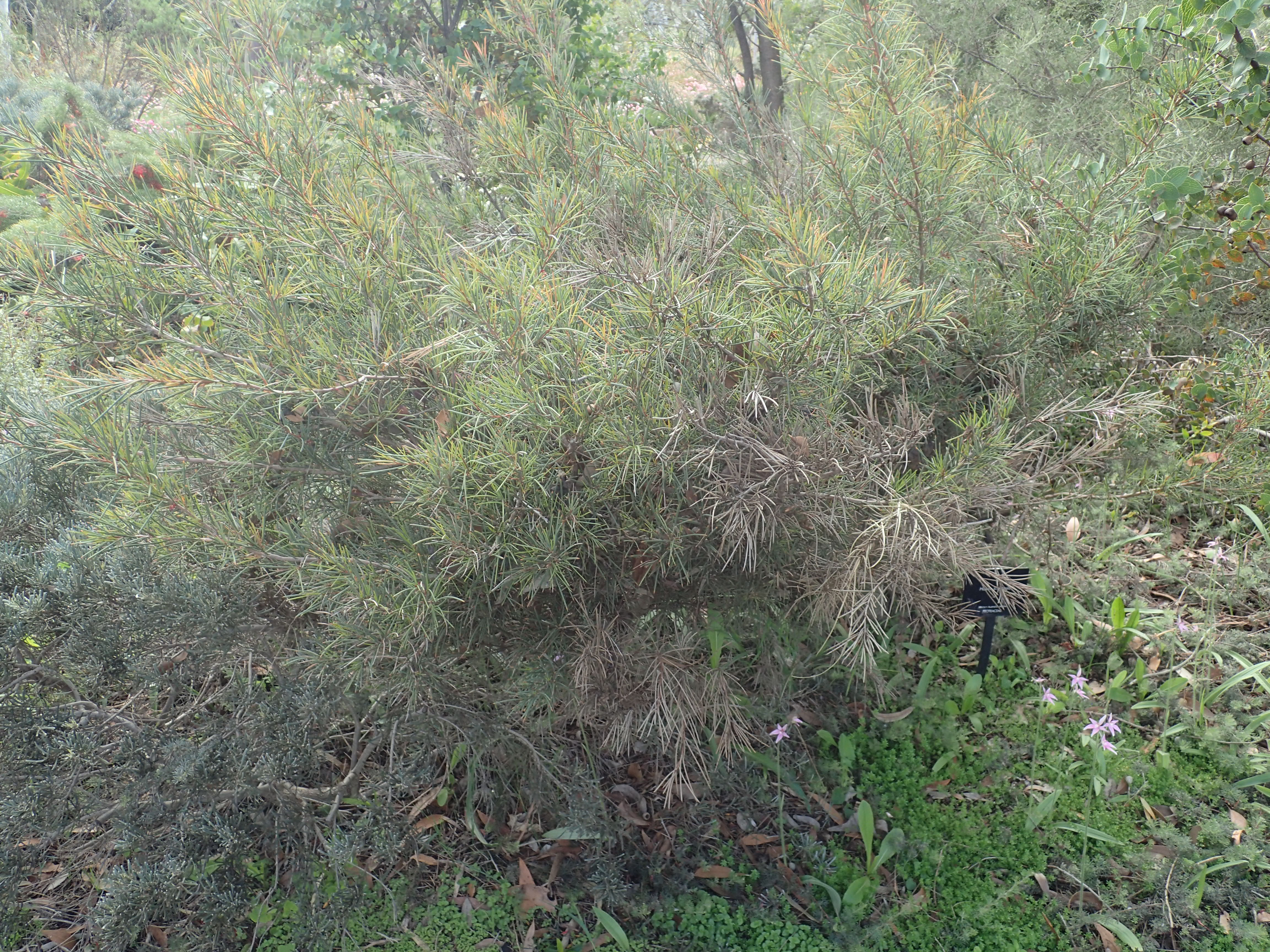 Hakea strumosa in Kings Park, Perth